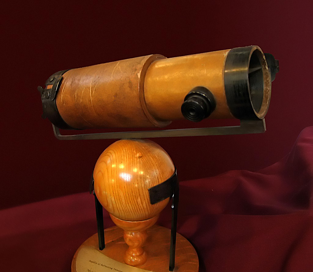 A replica of Isaac Newton's second reflecting telescope of 1672. This was a new design of telescope - the Newtonian reflector. Newton's work on optics and splitting white light, led him to believe that all refracting telescopes would suffer from chromatic aberration. His new design of reflecting telescope minimized this problem. However, due to problems with accurately grinding the mirror, Newton's telescope actually caused more image distortions than other contemporary telescope and more than a century passed before reflecting telescope became popular. Newton's first telescope had an objective concave primary mirror diameter of about 1.3 inches (33 mm) with a 6 inch (150mm) long focal length. It had the ability to magnify about 40 times, with a performance similar to a 6 foot (2m) long refracting telescope Newton compared it to (PBS/Nova: Newton's Dark Secrets). Newton presented a second version of his reflector to the Royal Society in 1672 (The History of the Telescope By Henry C. King, Page 74) and was admitted as a fellow of the society in the same year. This replica of that second Royal Society reflector and is in the Whipple Museum of the History of Science in Cambridge.